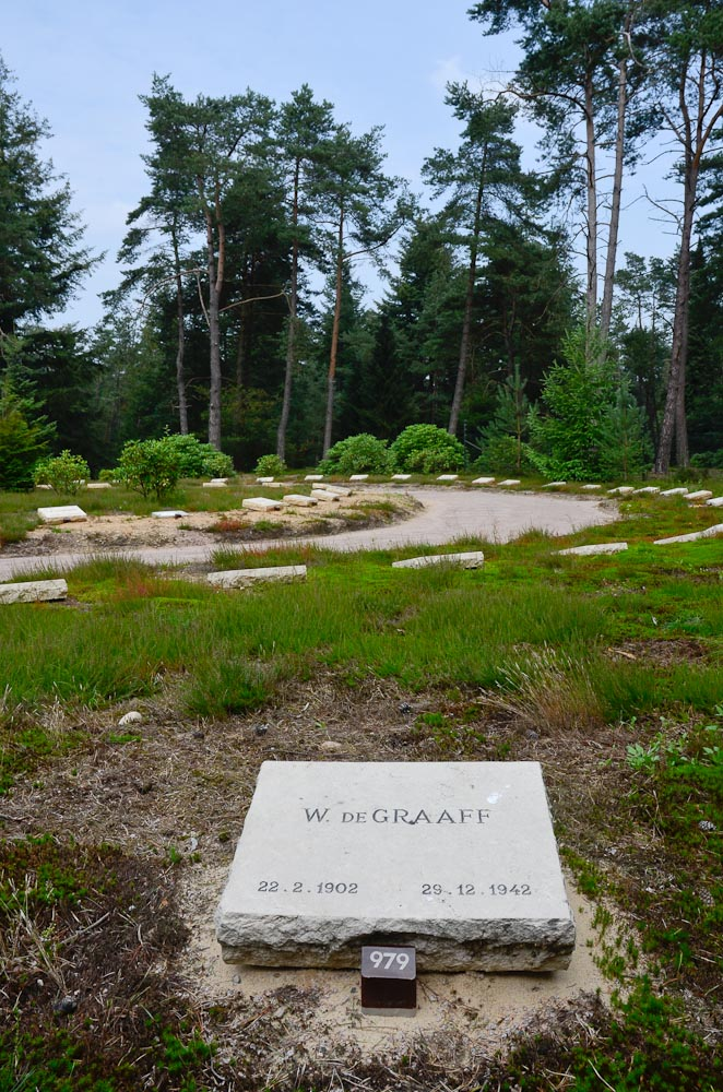 Grave of Willem de Graaff at Ereveld Loenen, The Netherlands